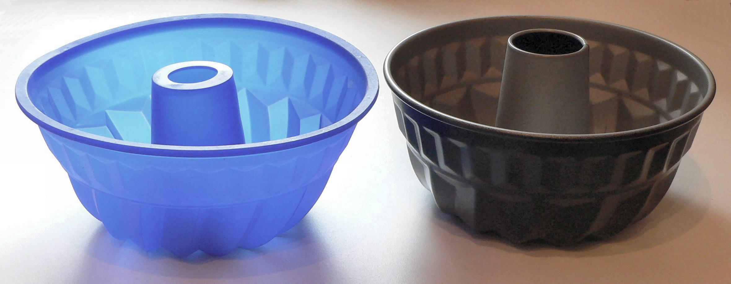 ring cake forms made from silicone rubber and metal